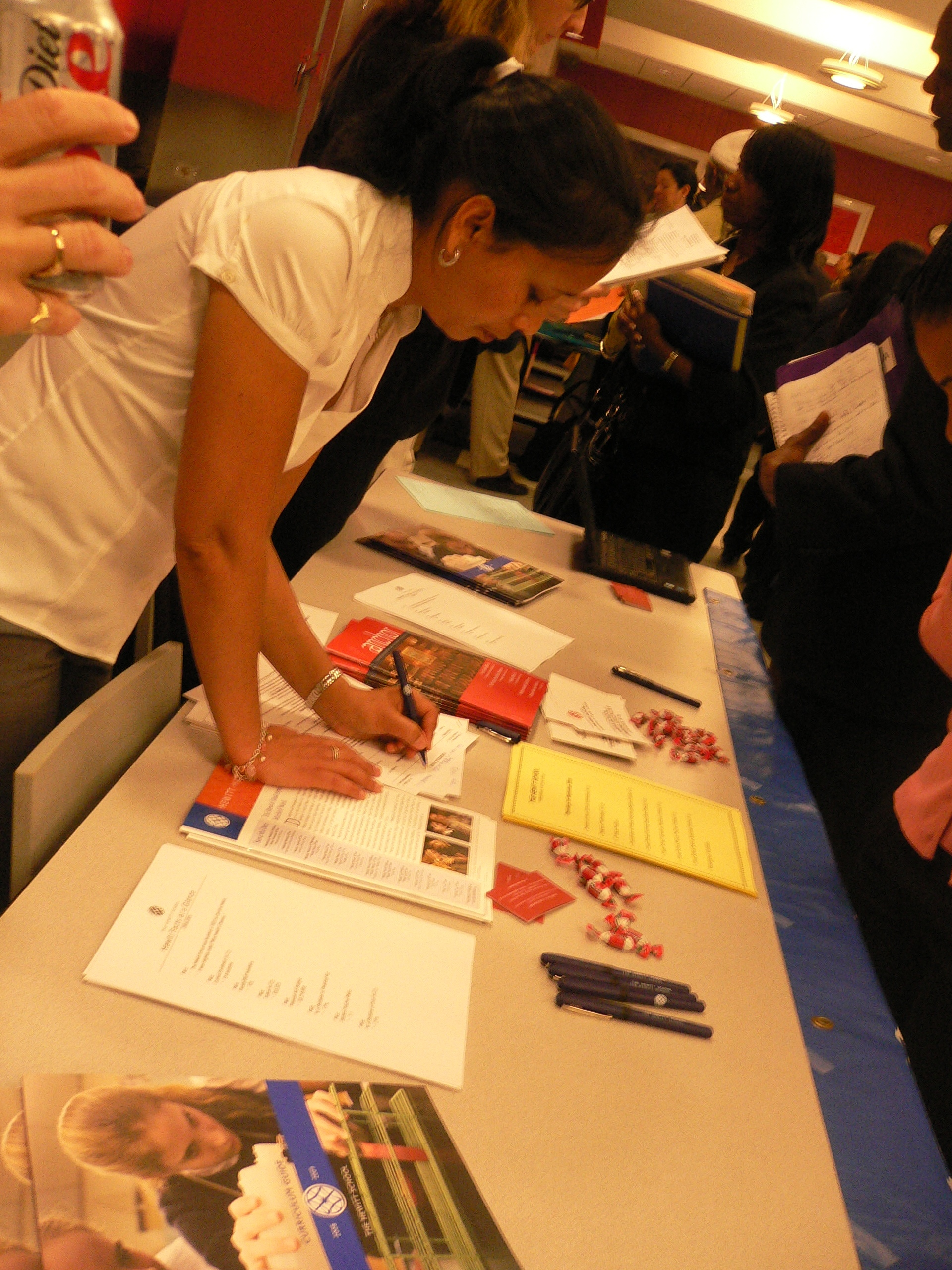 more of our table at the NYSAIS Job Fair to Promote Diversity